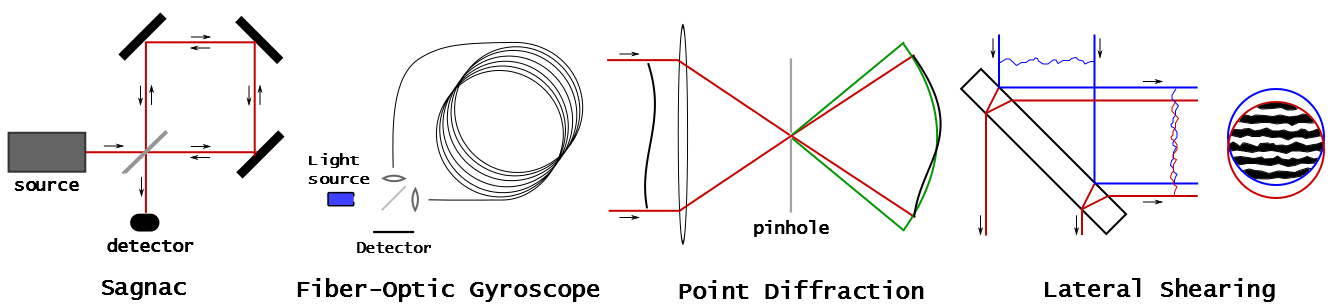 Author: User:Stigmatella aurantiaca with material from User:D. mcfadden